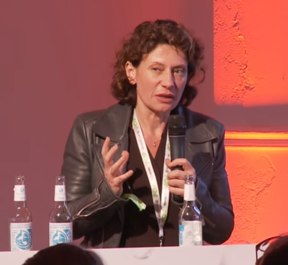 Andrea Belliger speaking at re:publica 2018